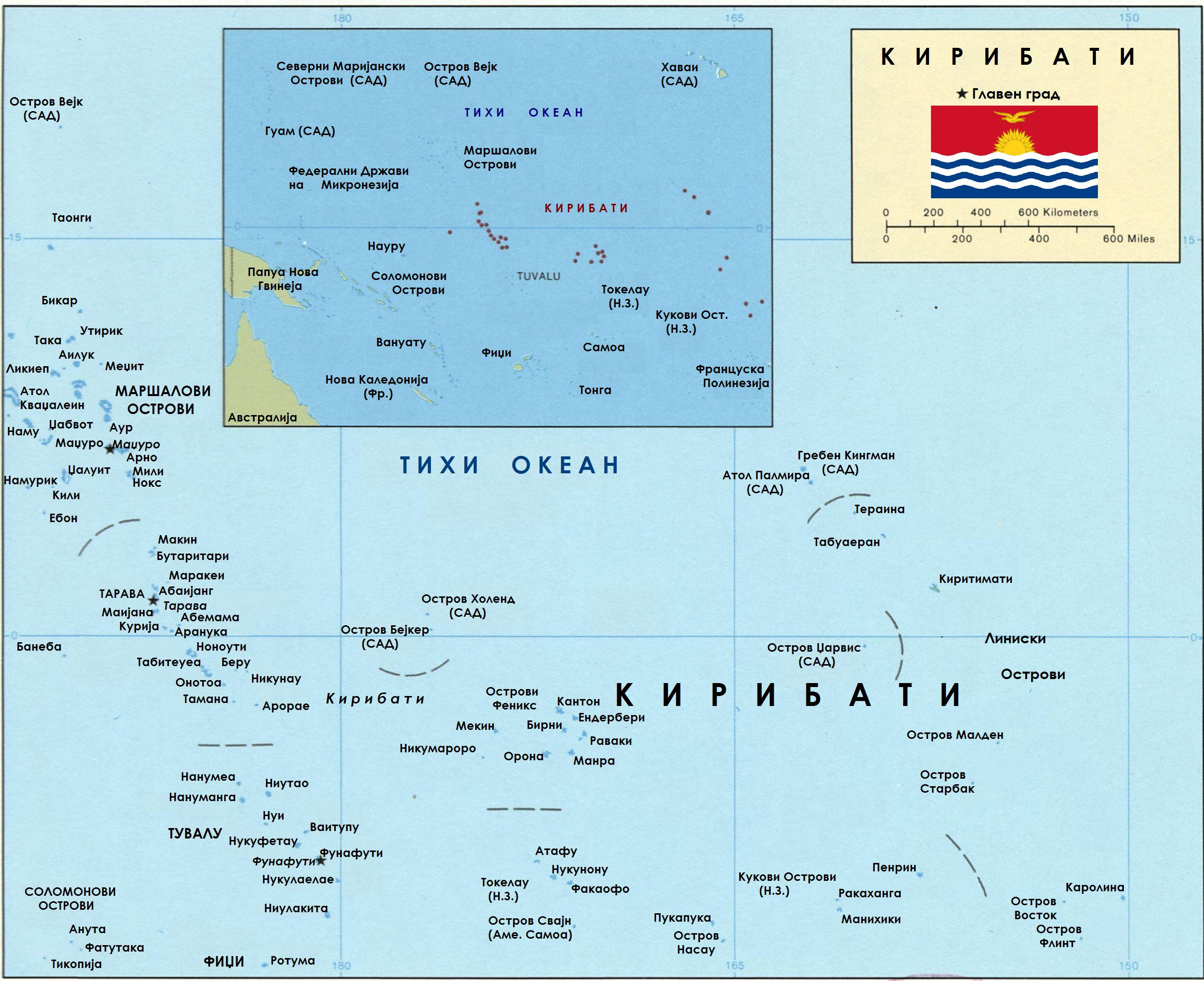 Map of Kiribati on Macedonian language.